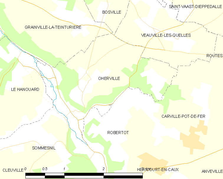 Map of French municipality Oherville